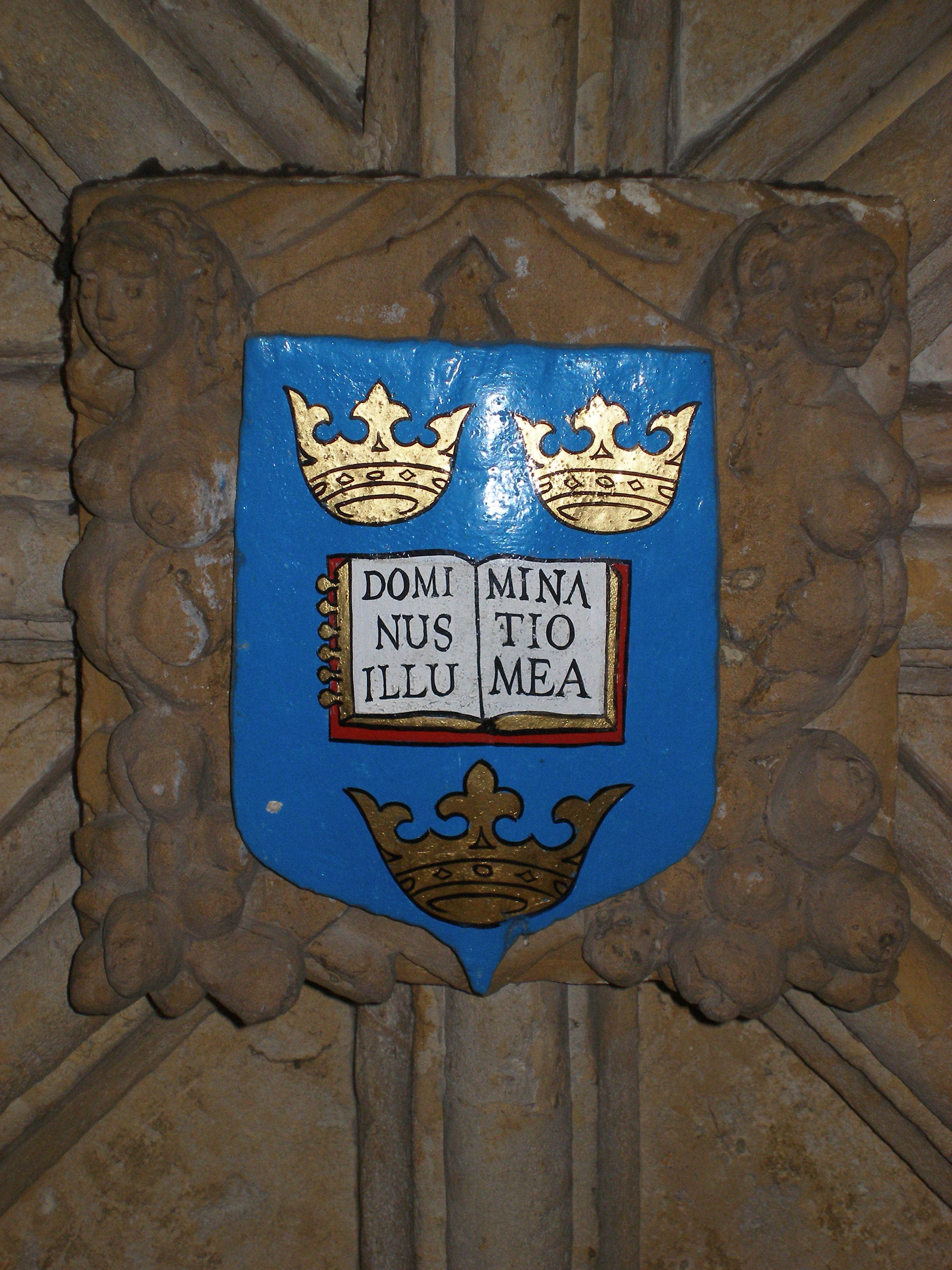 Old wooden coat of arms with the University of Oxford's motto "Dominus illuminatio mea", seen in Oxford, UK